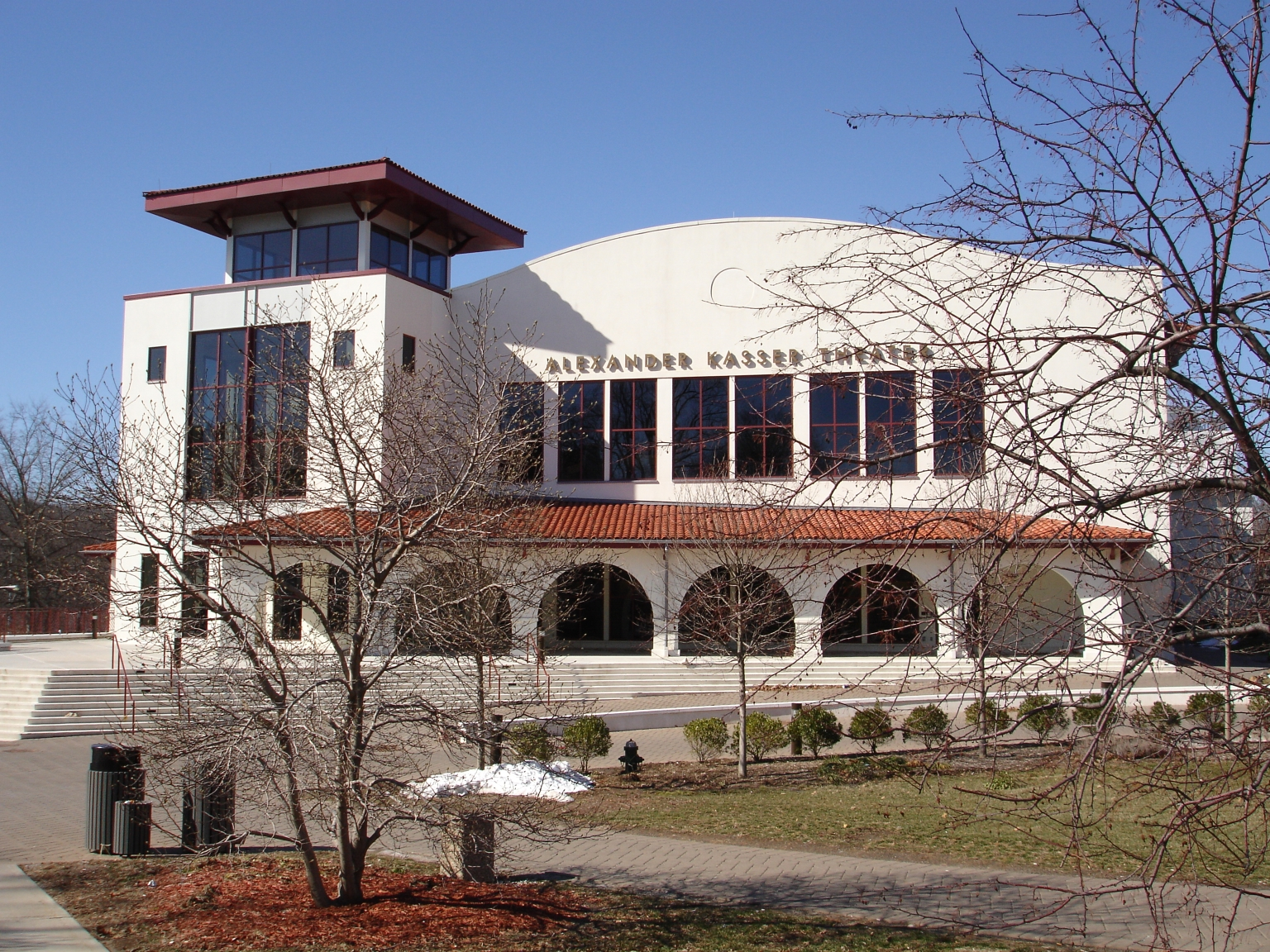 I am the author. This is original material that I photographed myself, as an alum of Montclair State University. Anyone can freely edit, distribute, and modify this image at will.